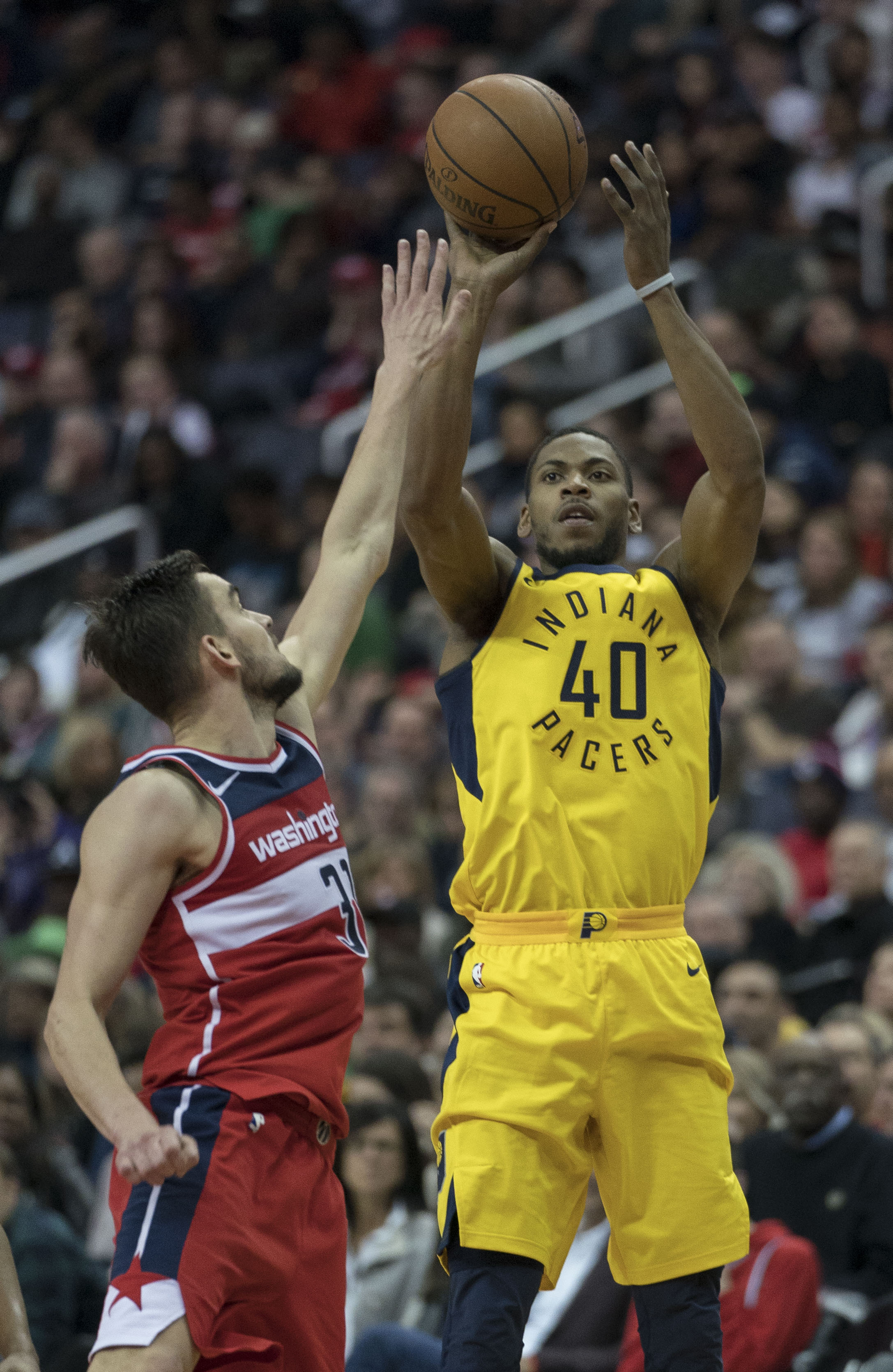 Pacers at Wizards 3/17/18